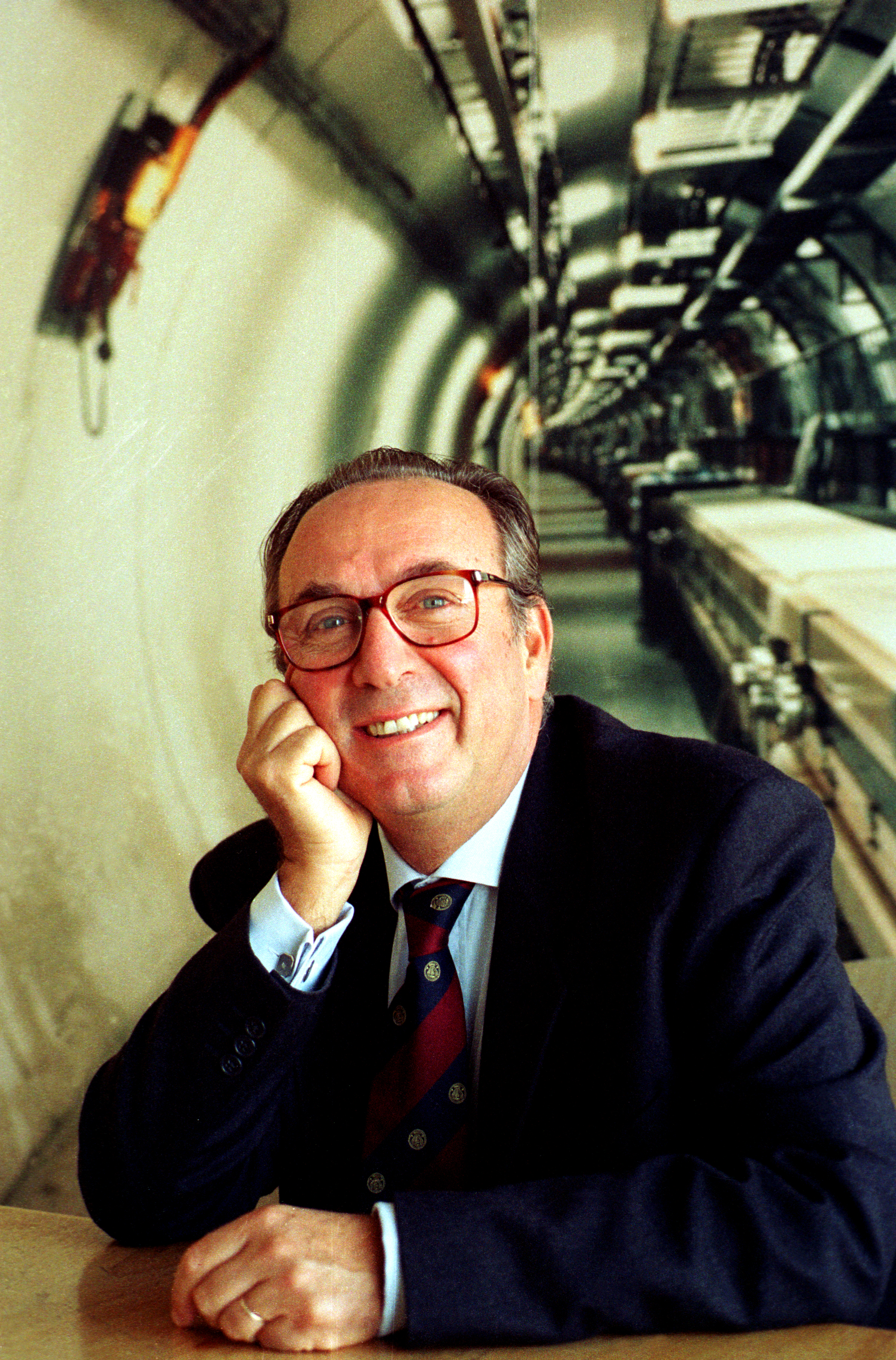 Photograph of ,Luciano Maiani fromer Director-General of CERN, taken 1996